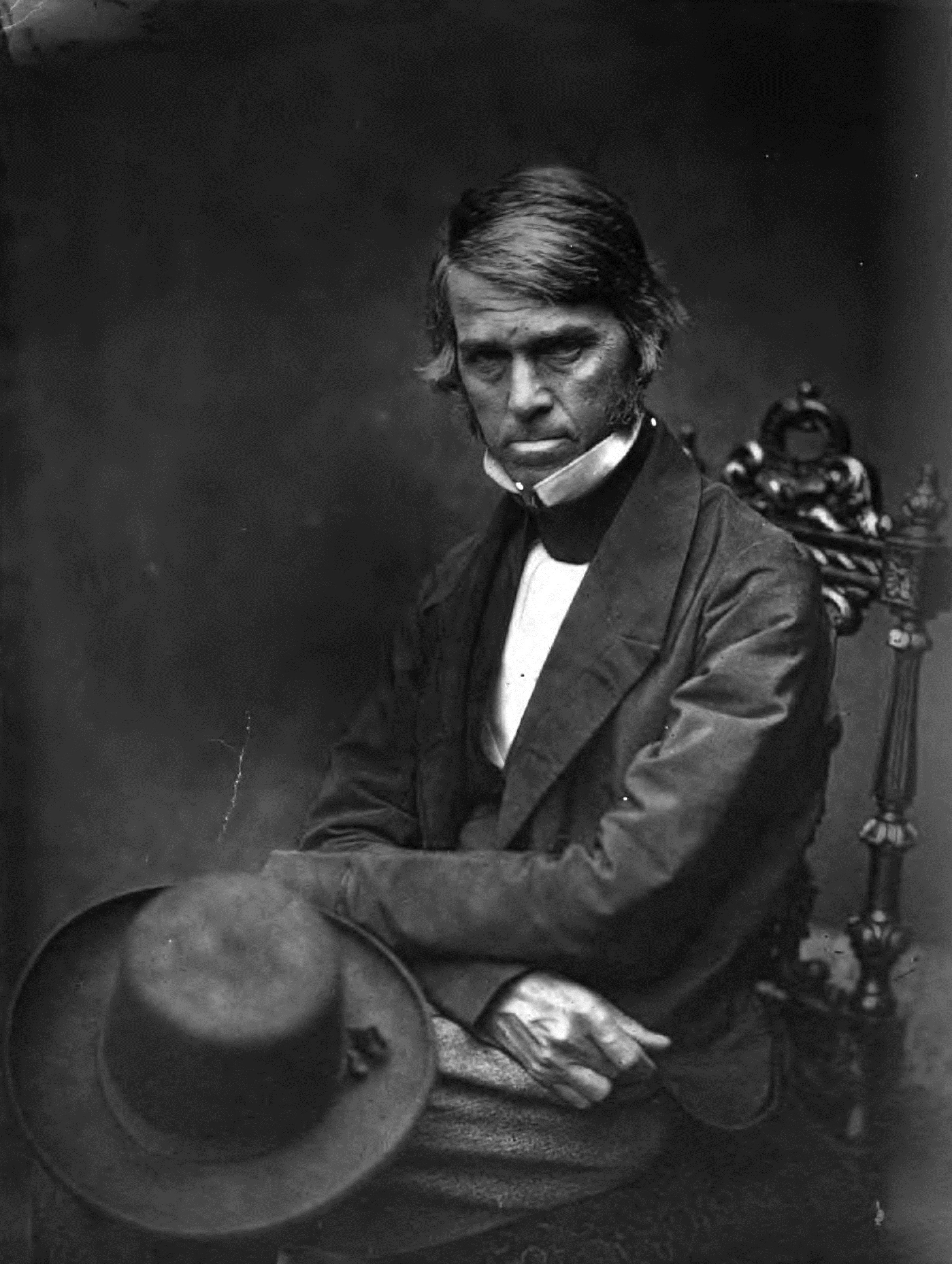 Picture of Thomas Carlyle, July 31, 1854.